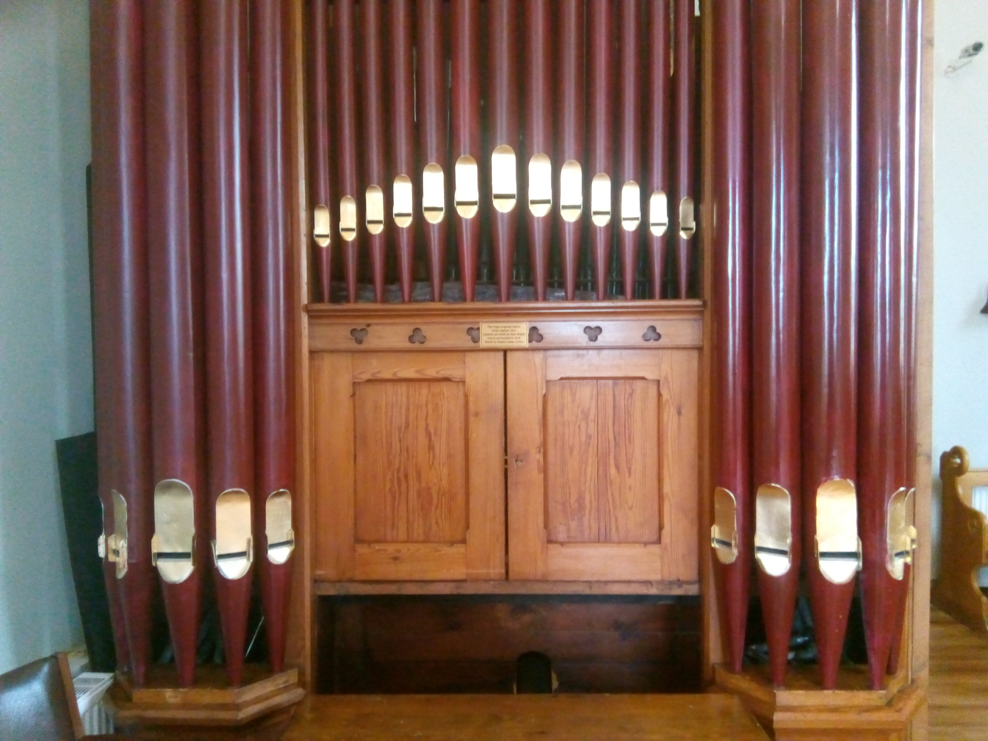 Organ in St Bridget's, Straffan